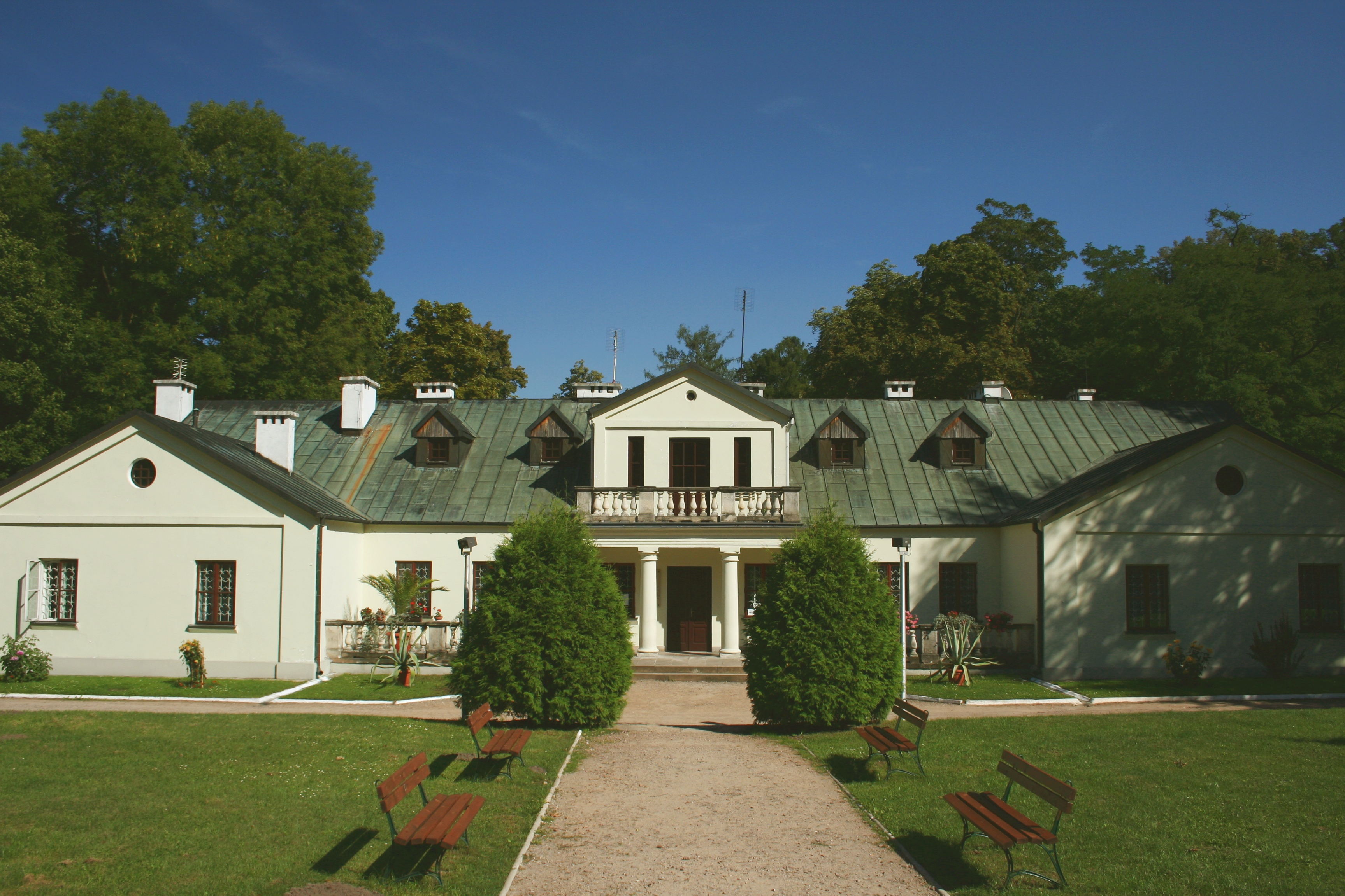 The museum of Mikołaj Rej in Nagłowice, Poland